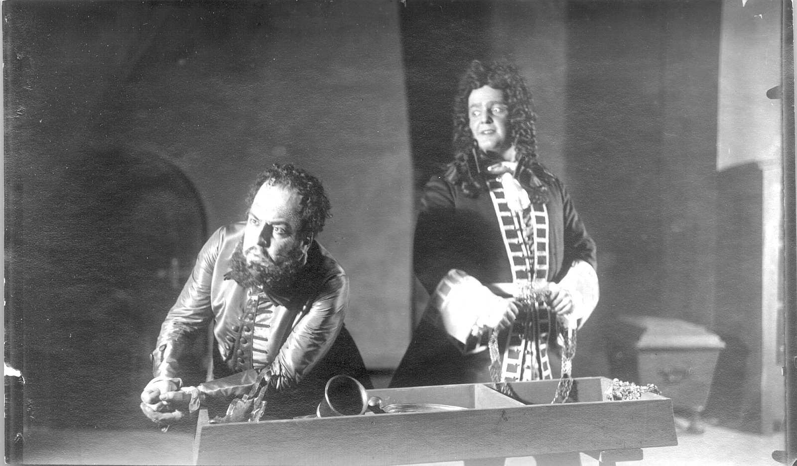 Cardillac. Opera by Paul Hindemith with Libretto by Ferdinand Lion from story by E. T. A. Hoffmann. Performed at the Staatsoper Dresden, on 09.11.1926 Conducted by Fritz Busch. Scene II. Act 3. Robert Burg as Cardillac and Max Hirzel as the officer. Photo by: Richter, Ursula, 1926.11 Original (Paper, 10,5 x 18 cm, black and white) Owner: SLUB / Deutsche Fotothek PERMALINK: Author of the metadata: Deutsche Fotothek